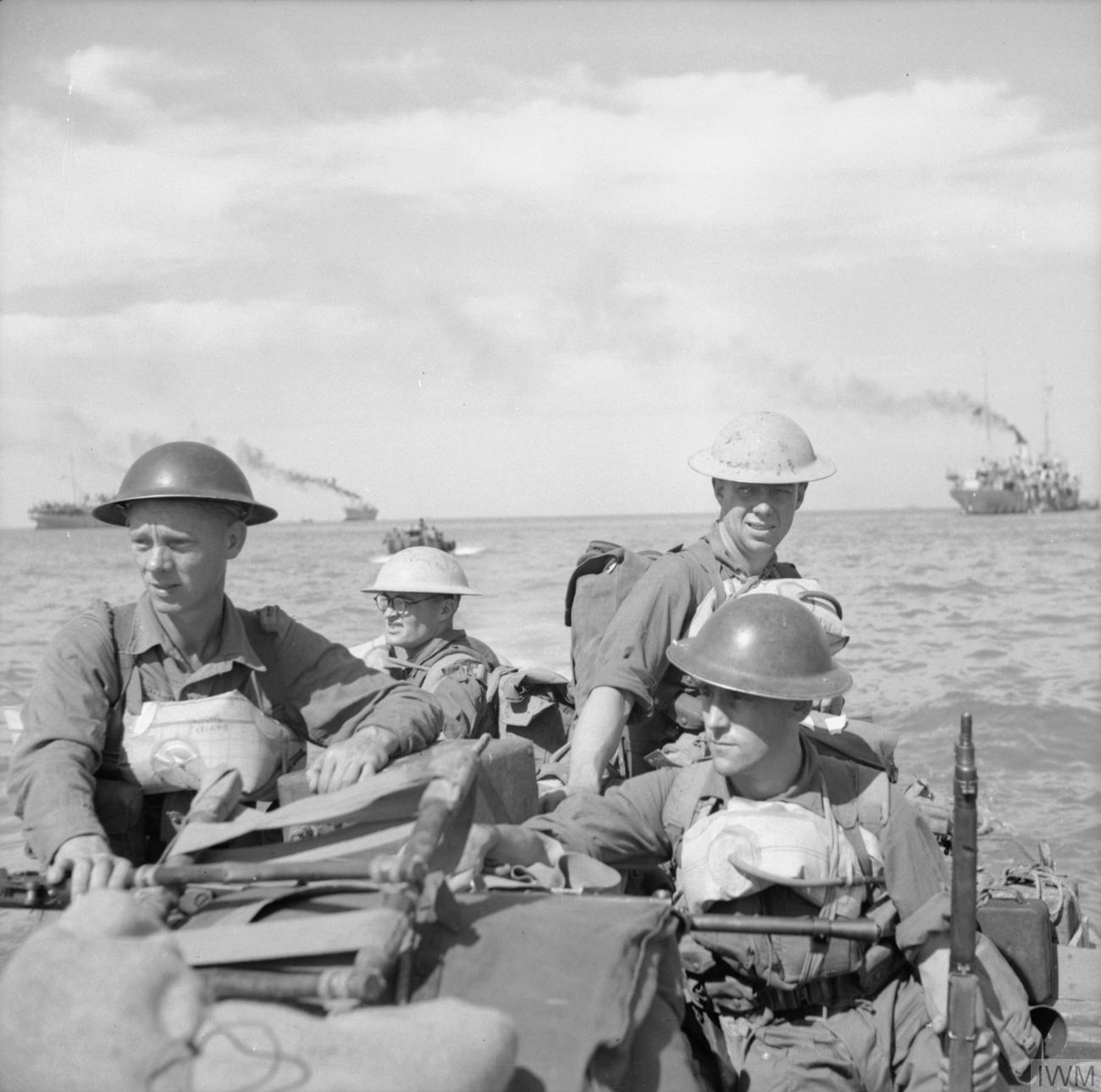 British troops in a landing craft make their way ashore on Ramree Island, 21 January 1945.